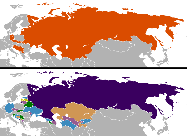 Colored by User:Aivazovsky from public domain Wikimedia Commons source